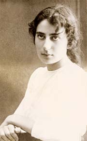 Rachel Bluwstein